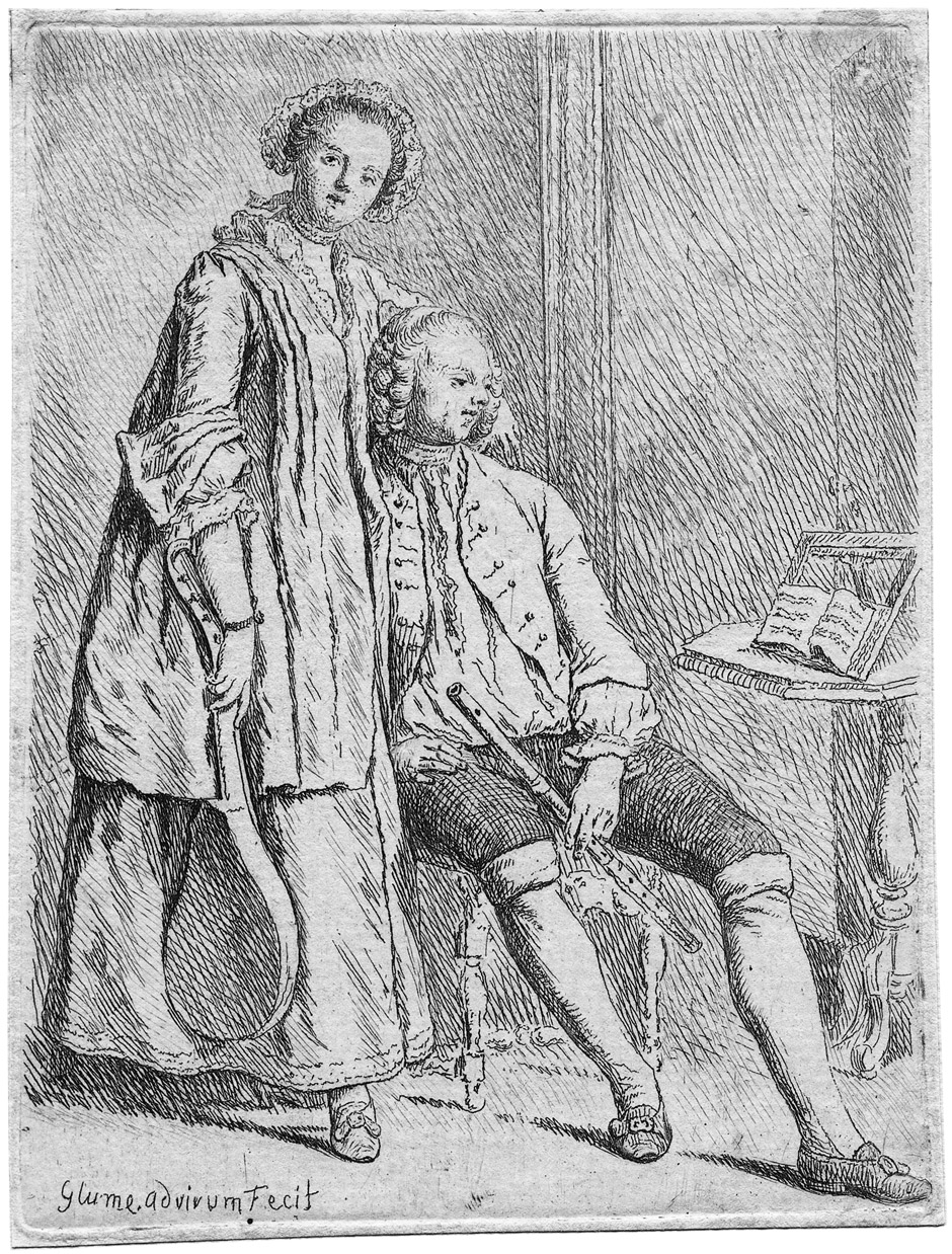 German sculptor and interior decorator Johann Michael Hoppenhaupt (1709-1779) and his wife Johanna Elisabeth Niehrens, etching by Johann Gottlieb Glume.